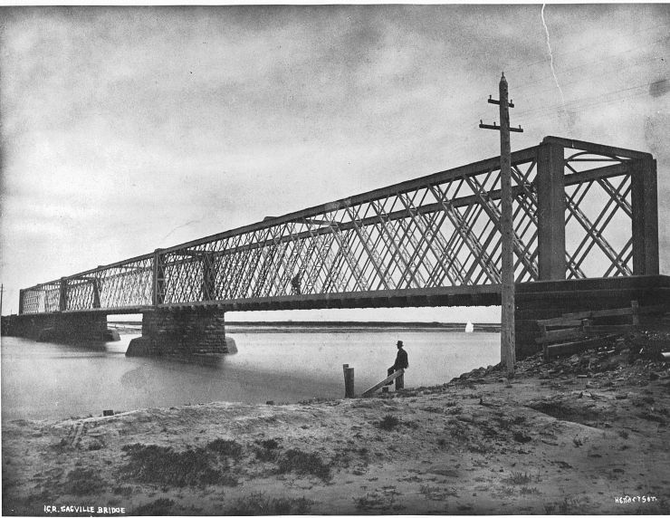 "Intercolonial Railway bridge at Sackville, NB" (around 1875)